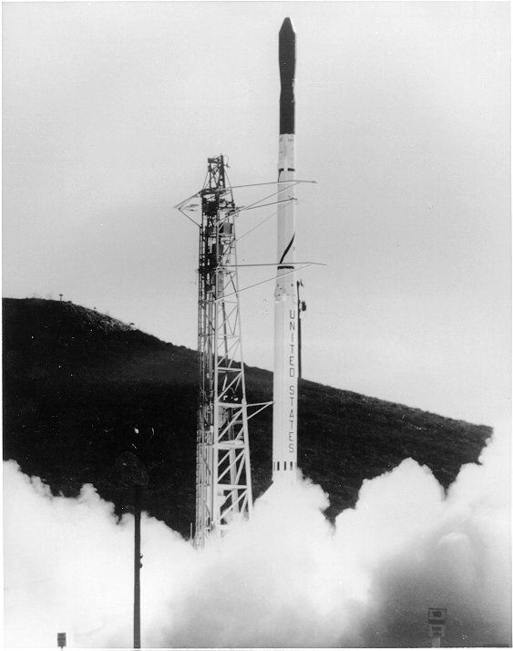 Scout X-4 S113 rocket launch from Vandenberg AFB, 19 December 1963, carrying the ADE-A research satellite.